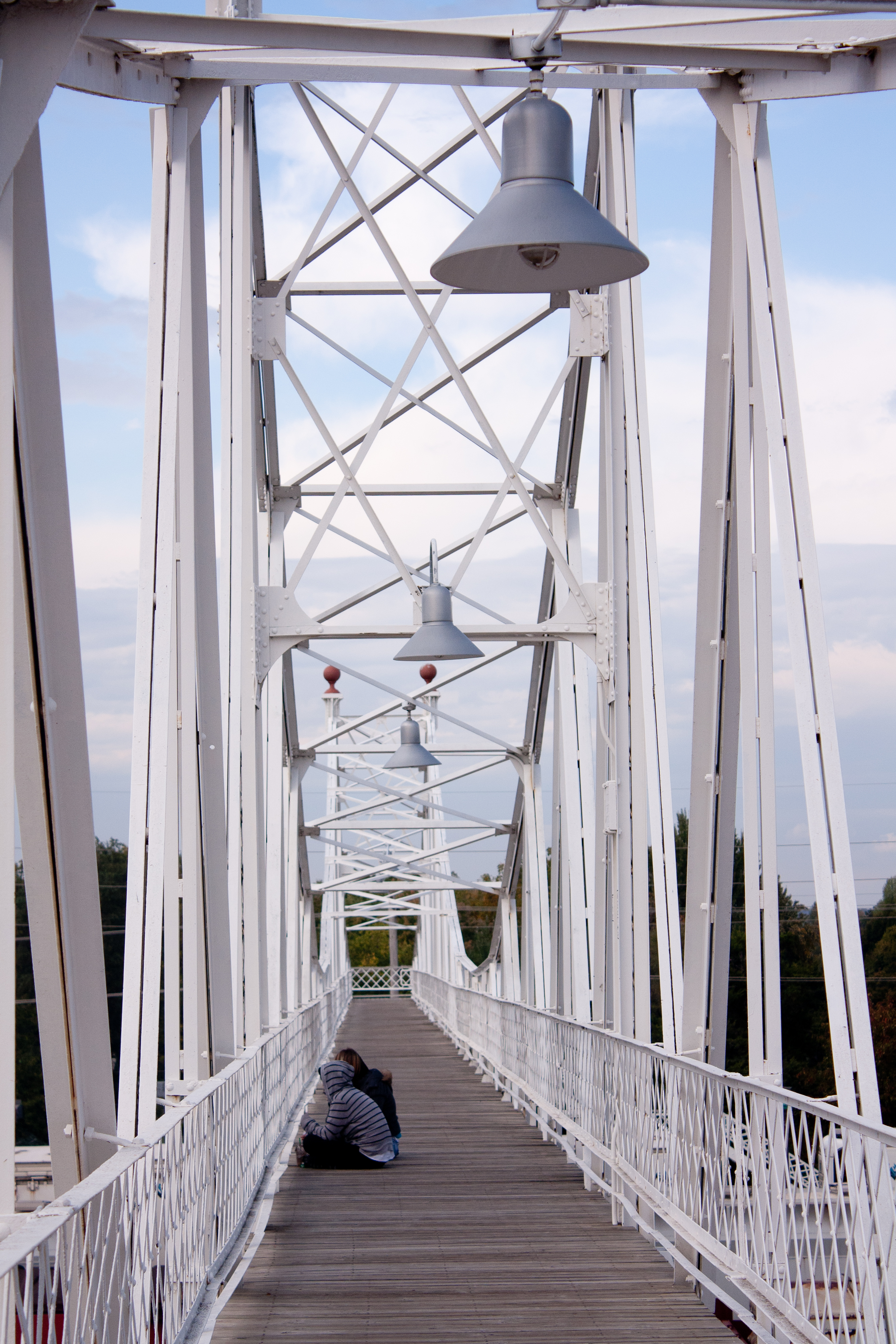 Jefferson Avenue Footbridge, near the Commercial Street Historic District